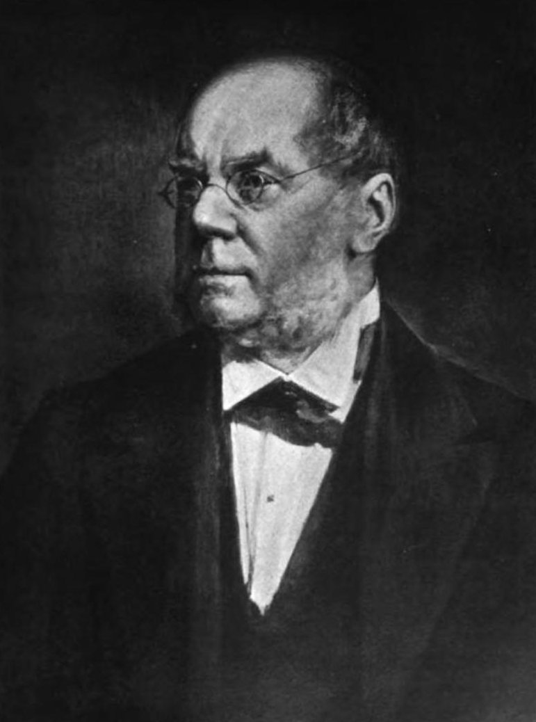 Portrait of Sir William Smith (lexicographer). Inscription below (in book): "Sir William Smith. (By Sir George Reid, P.R.S.A., in the possession of John Murray)".